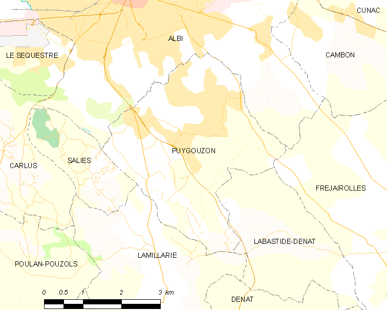 Map of French municipality Puygouzon